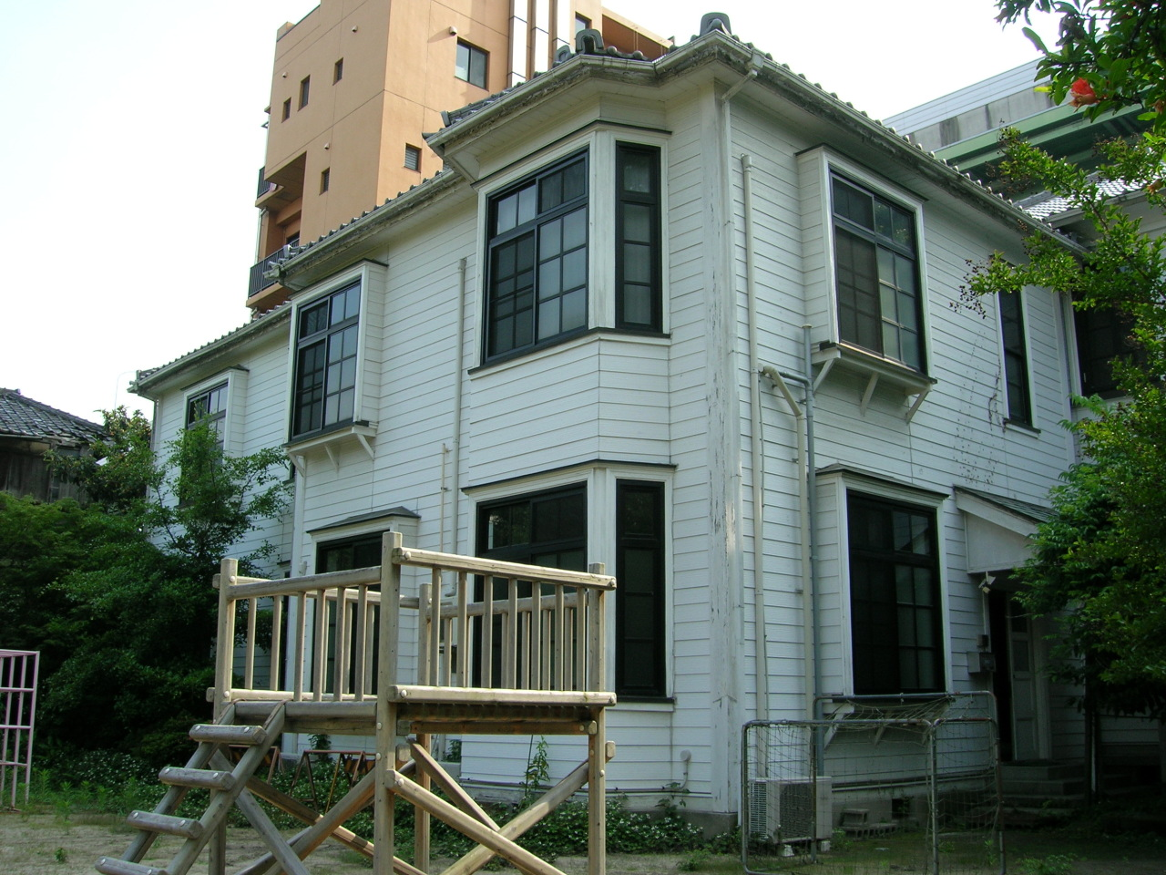 Catholic Chikara-machi Kyokai, Shisai-kan (Catholic Chikaramachi Church's Priest house). Loc: Higashi word, Nagoya city, Aichi Prefecture, Japan